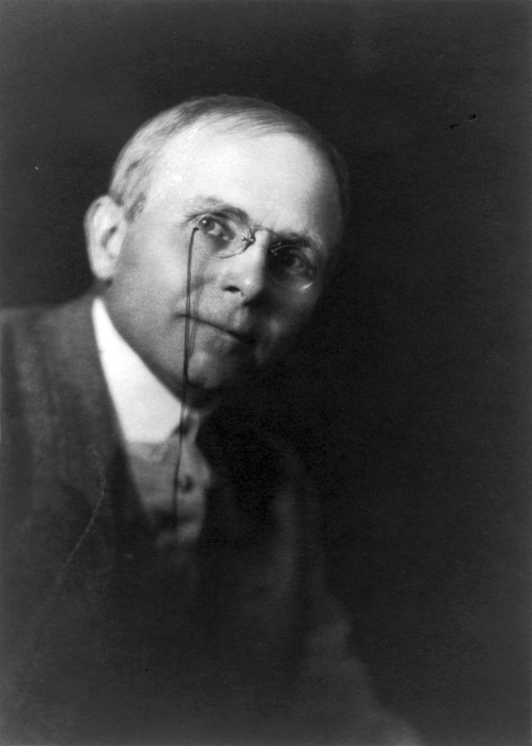 Frederick Burr Opper, bust portrait, facing slightly right